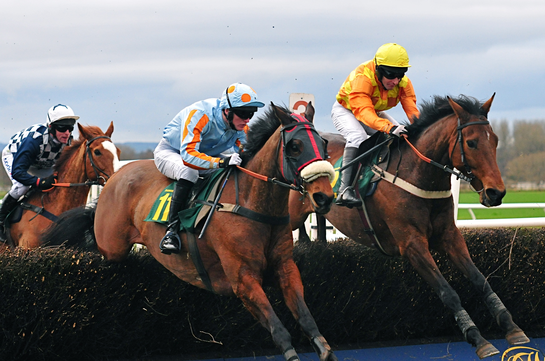 Bangor on Dee horse racing ~ National Hunt